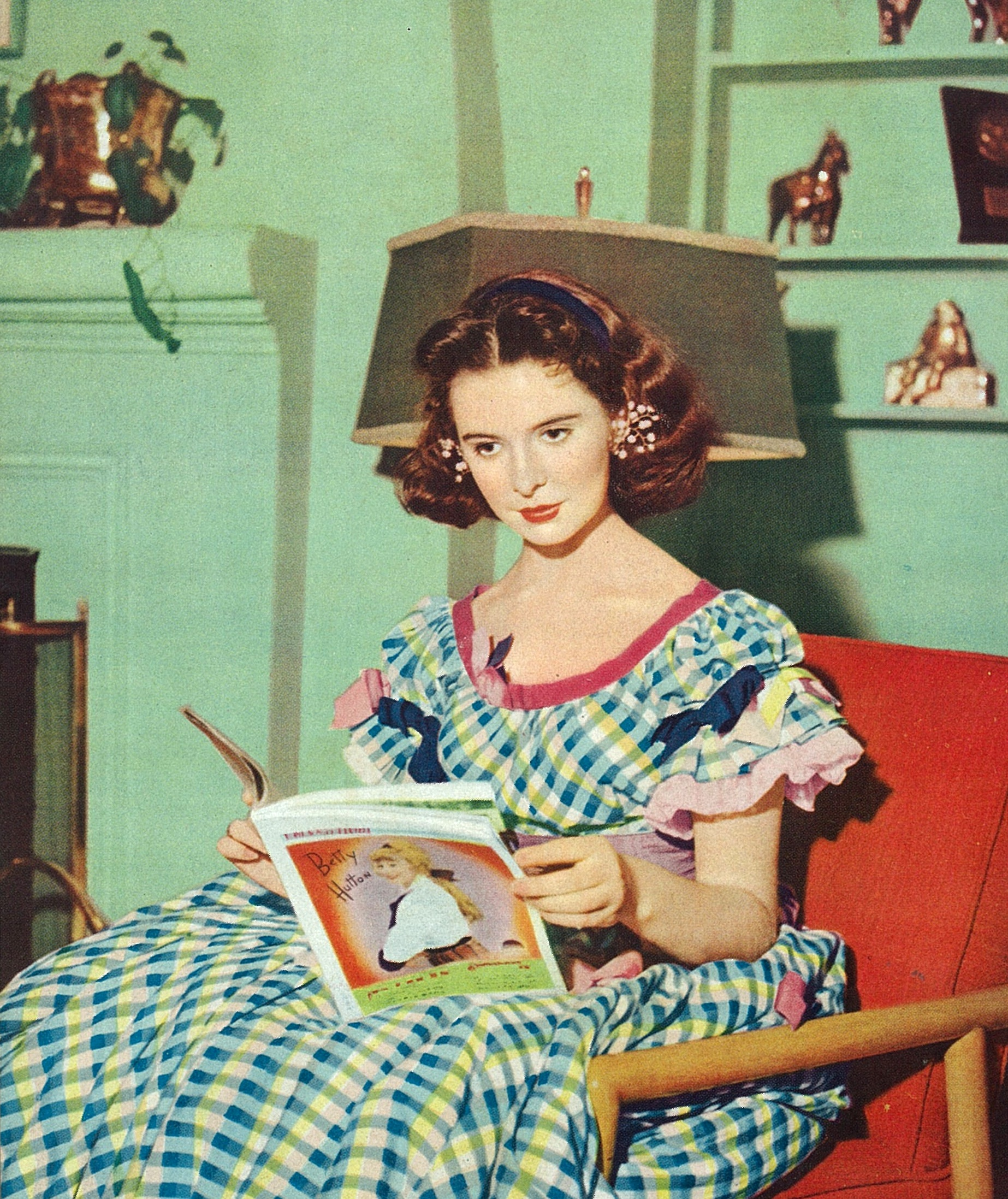 Margaret O'Brien from Eiga no Tomo (November 1952)